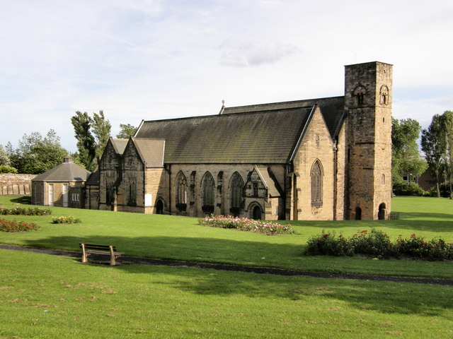 St Peter's Church, Monkwearmouth, Sunderland, Durham, Great Britain